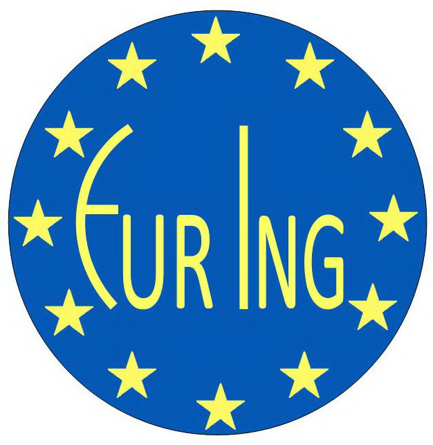 Eur-Ing Logo